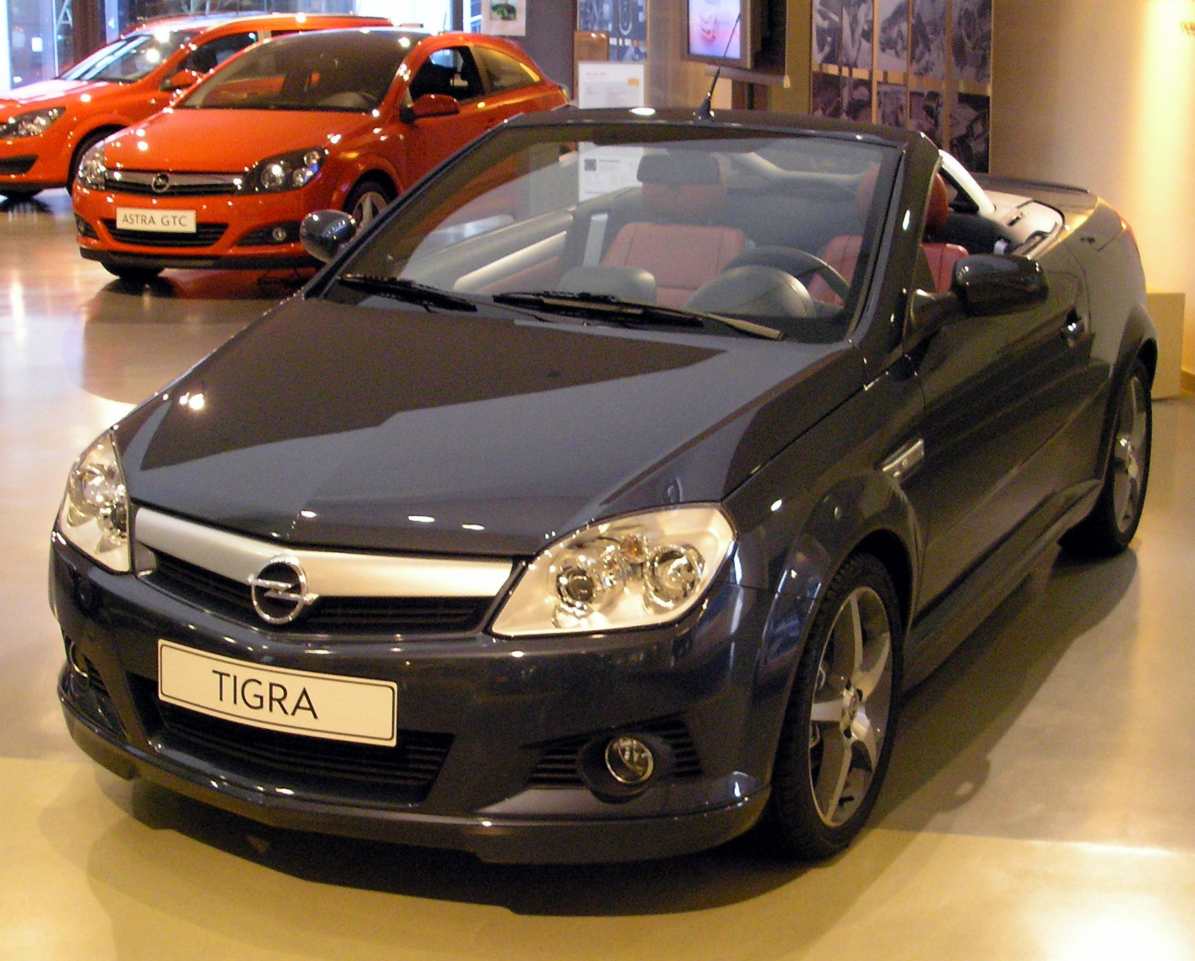 Description: Opel Tigra, im Opel Zentrum in Berlin an der Friedrichstraße. The Opel Tigra, image taken at the Opel Zentrum in Berlin at Friedrichstraße. Source: self-made, I release it into the public domain. Gryffindor 17:48, 9 March 2006 (UTC)